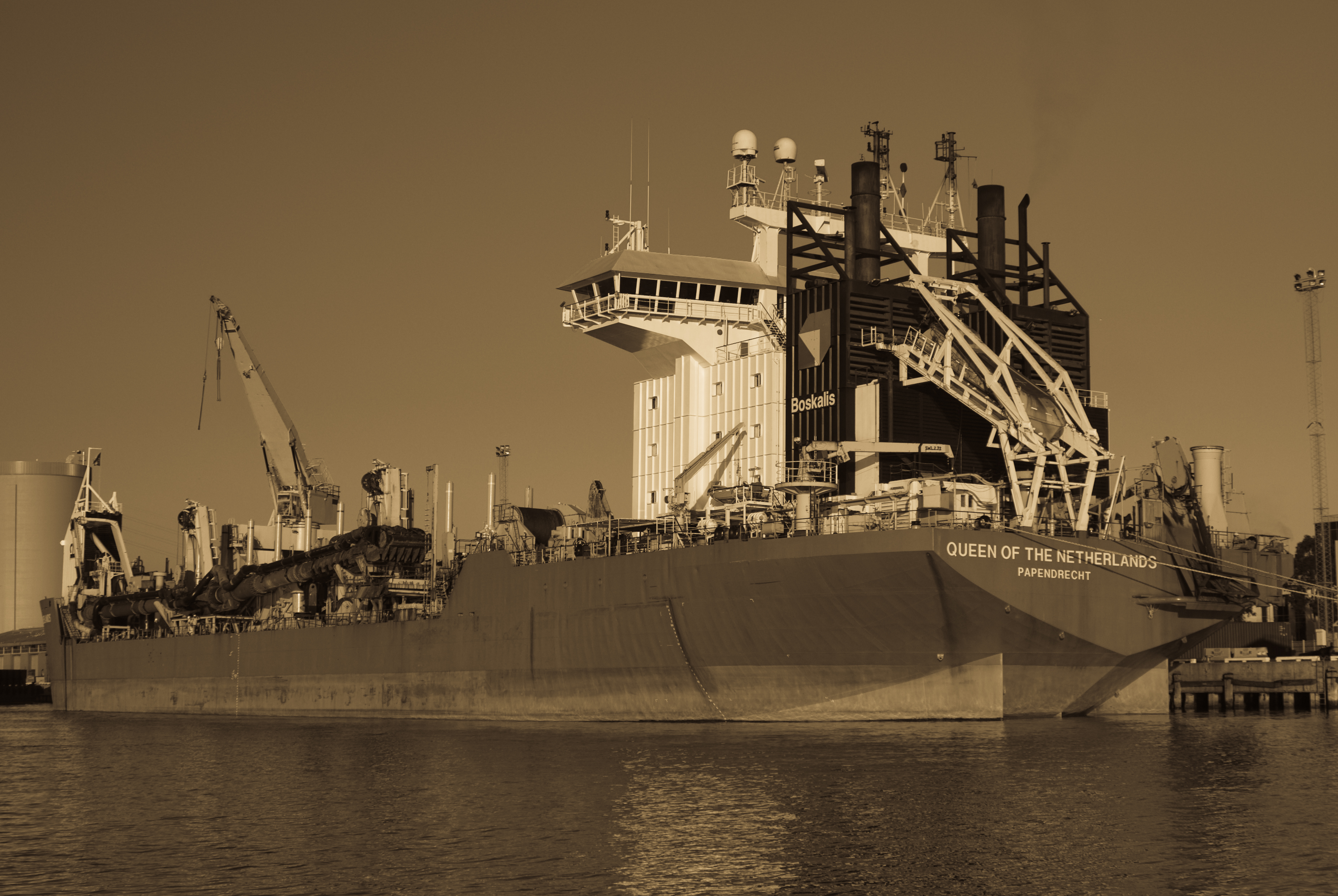 Dredgeing Ship Queen of the Netherlands in Melbourne Harbor. IMO Number: 9164031 Length: 220 m Beam: 32 m